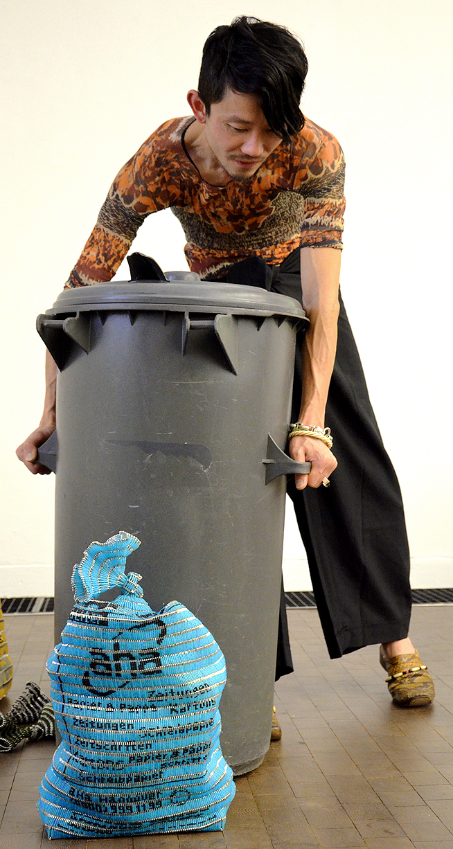 Shige Fujishiro ...